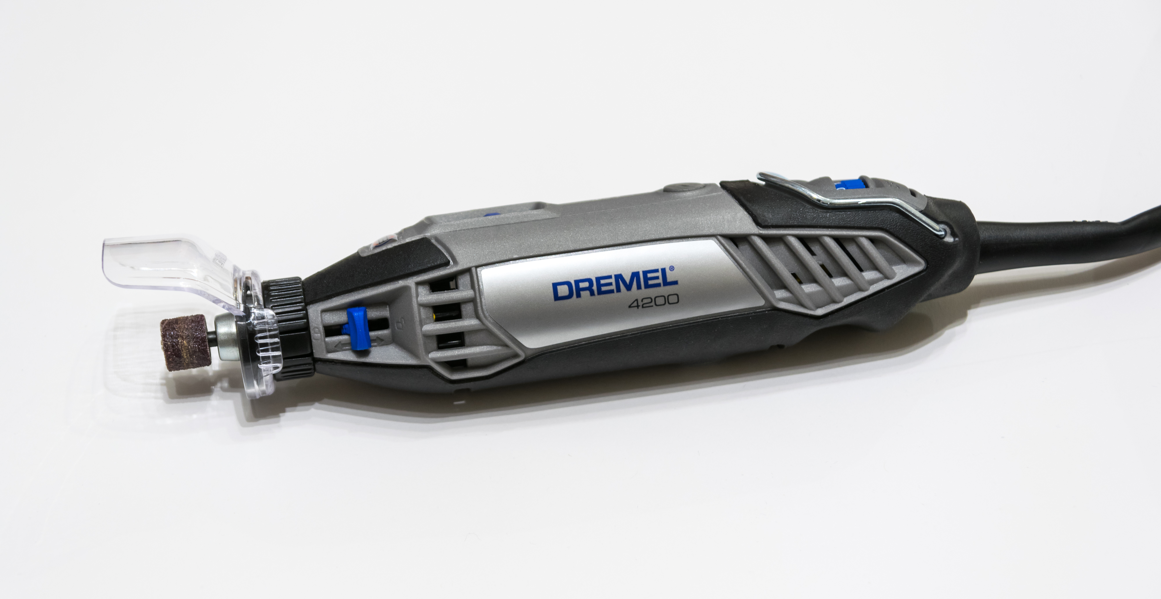 Dremel 4200 power tool